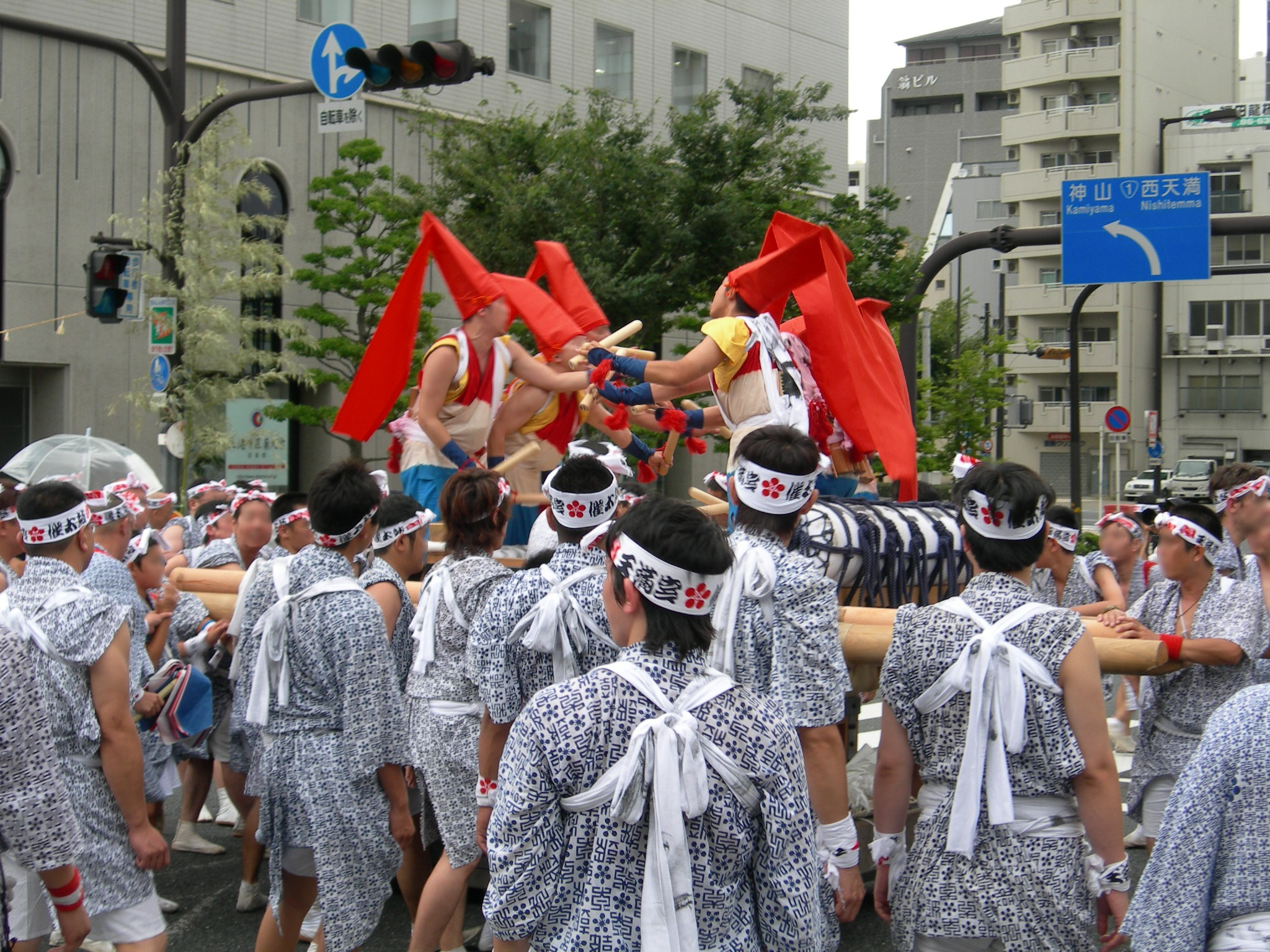 "Moyooshidaiko" of "Okatogyo" of Tenjin-Matsuri go Naniwa-bashi. Pre-image processing.